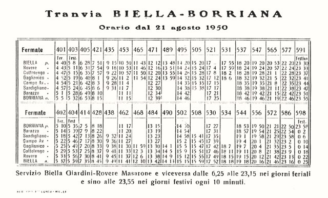 Biella-Borriana 1950 timetable